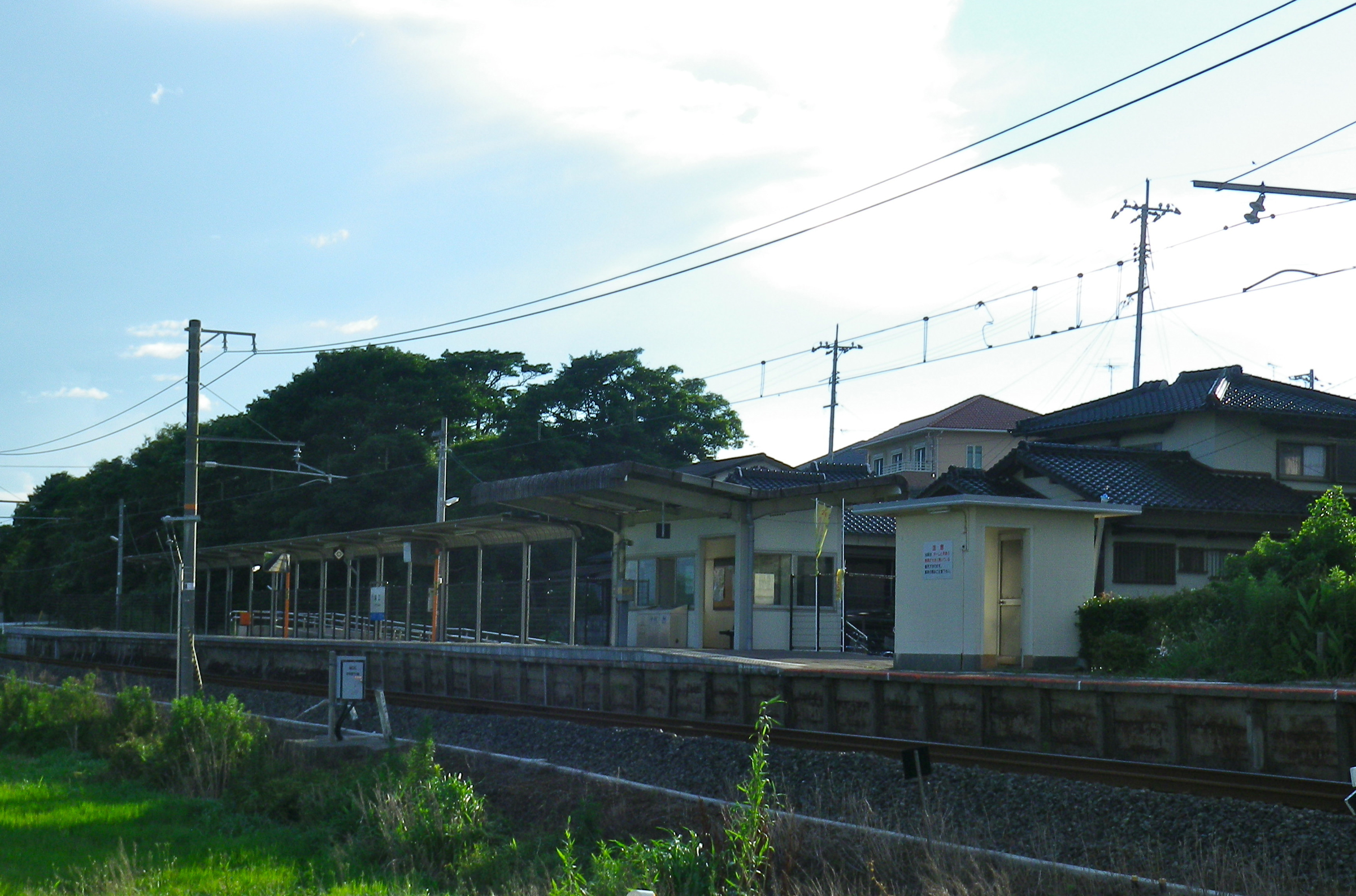 Ube Line Kusae Station platform, in Ube, Yamaguchi, Japan